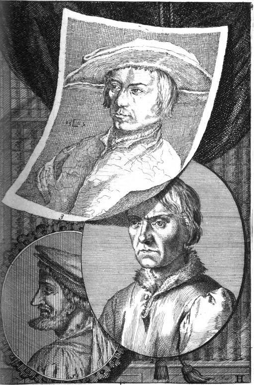 P69 H Cornelis Engelbrechtsz - Lucas van Leiden - Barend van Brussels